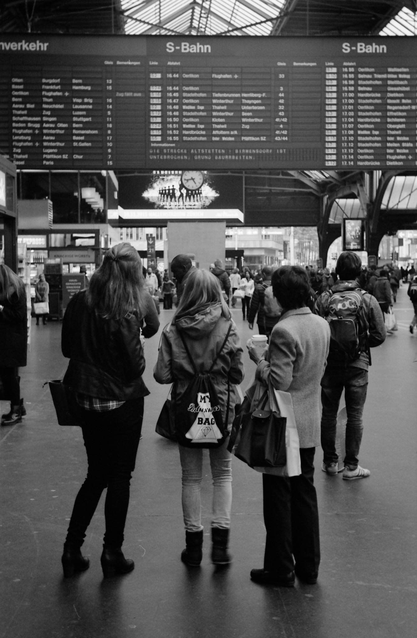 Ladies looking at the old main split-flap display of Zürich HB train station (scan from negative, Ilford XP2 Super 400, Leica IIIc, Summitar 50mm f/2).